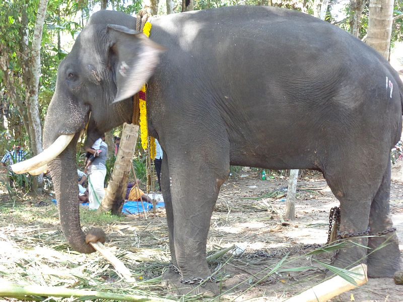 Chirakkal kalidasan is an elephant